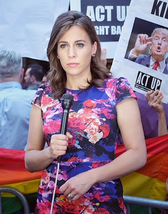 Hallie Jackson, NBC News correspondent, does a live report in front of Trump Tower in New York City, during an anti-Trump protest.